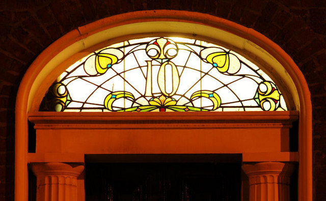 Fanlight, Belfast (4). See 1599556. The fanlight of no 10 University Square includes some attractive stained glass.